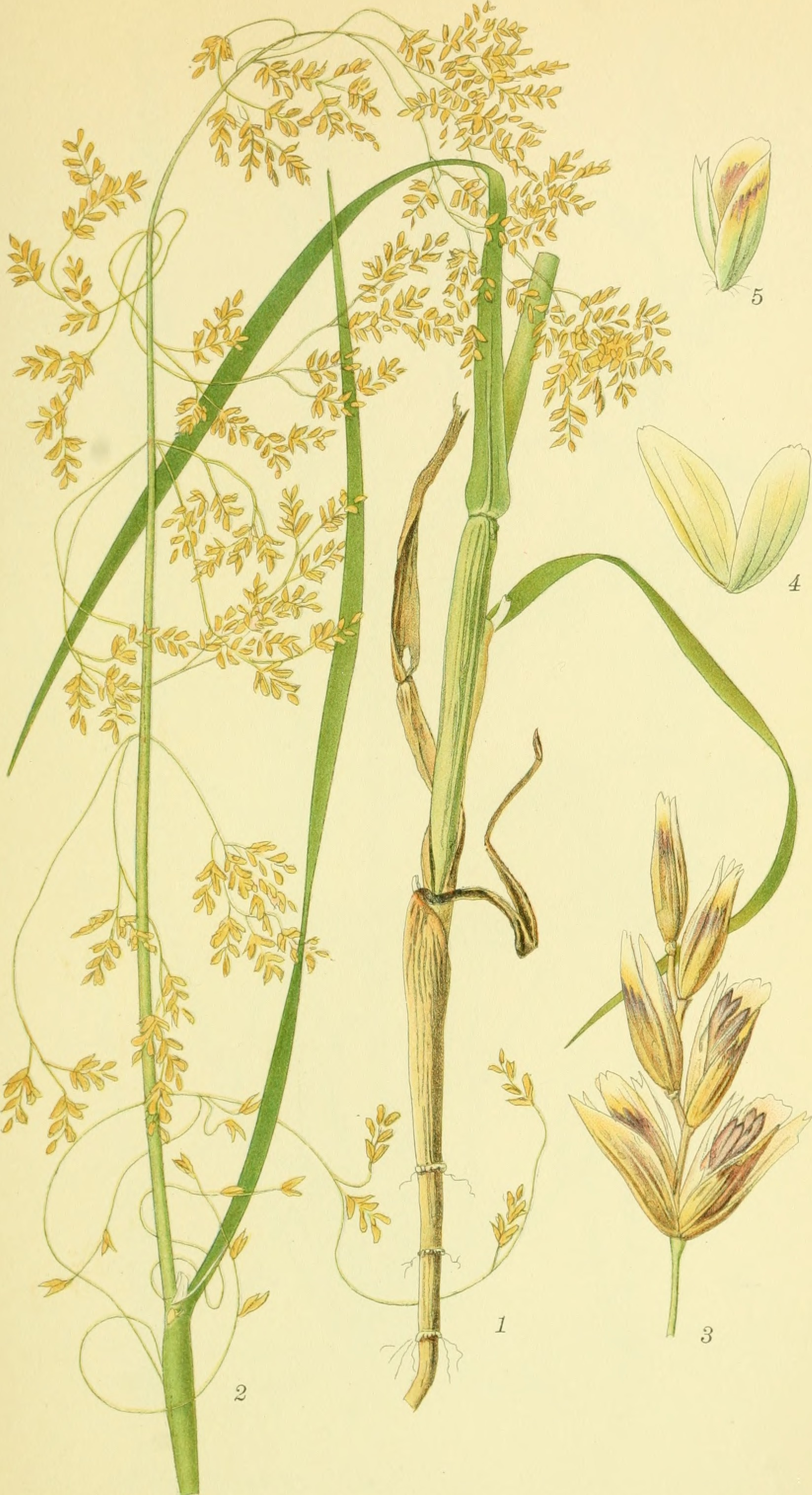 Title: Billeder af nordens flora Year: 1917 (1910s) Authors: Mentz, August, 1867-1944; Ostenfeld, C. H. (Carl Hansen), 1873-1931 Subjects: Plants; Plants; Plants Publisher: København, G. E. C. Gad's forlag Text Appearing Before Image: 654 Text Appearing After Image: HÆNGEGRÆS, colpodium fulvum var. pendulinum